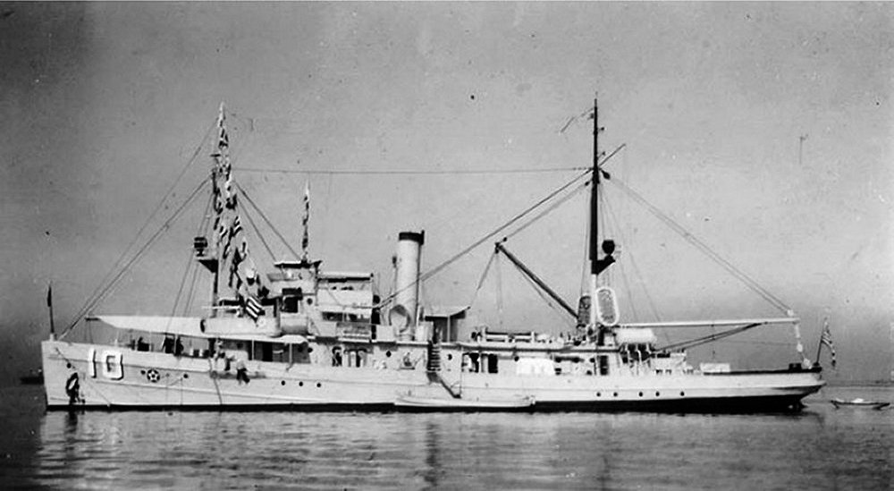 Serving as an aircraft tender before 1936